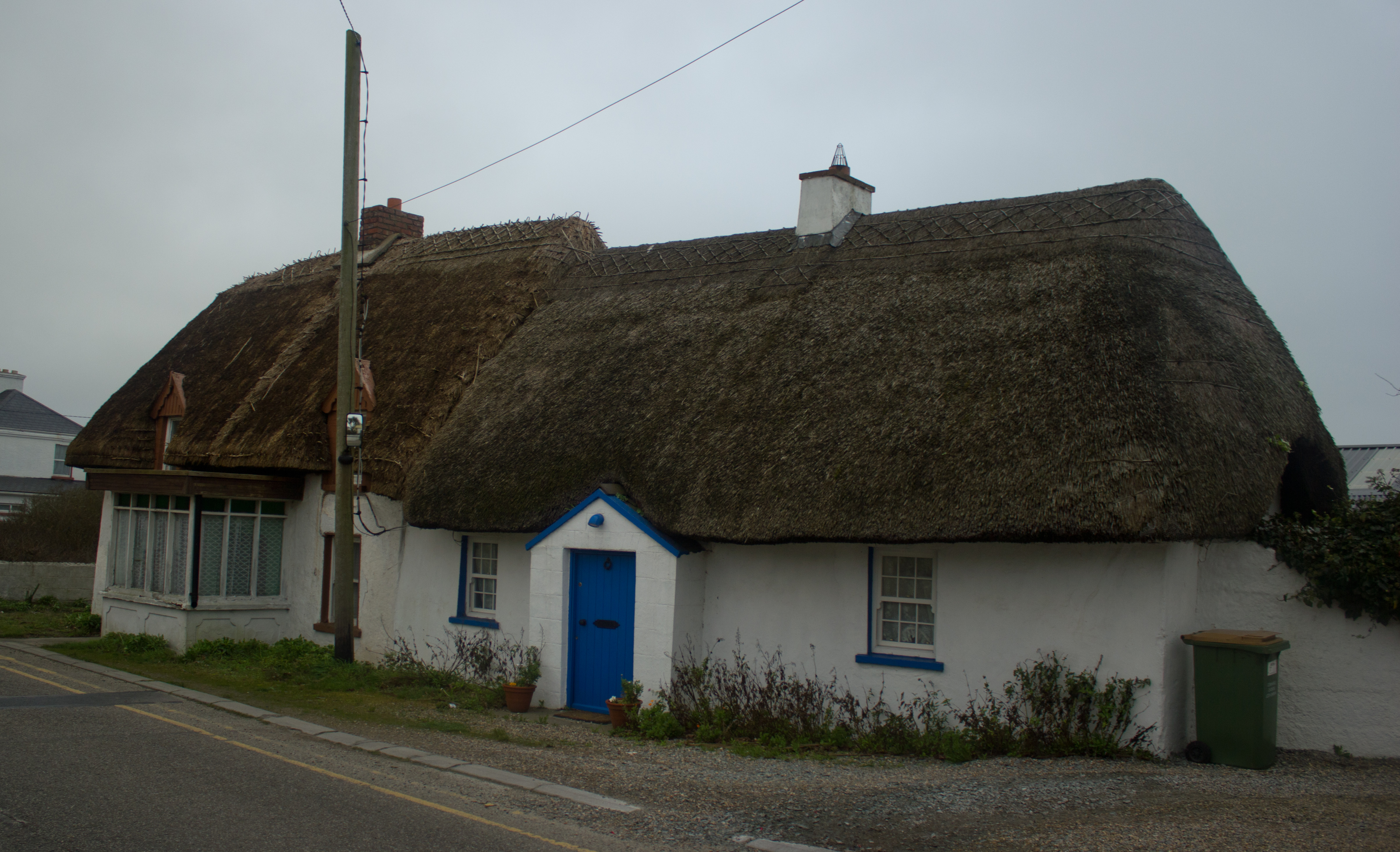 Ireland 2011